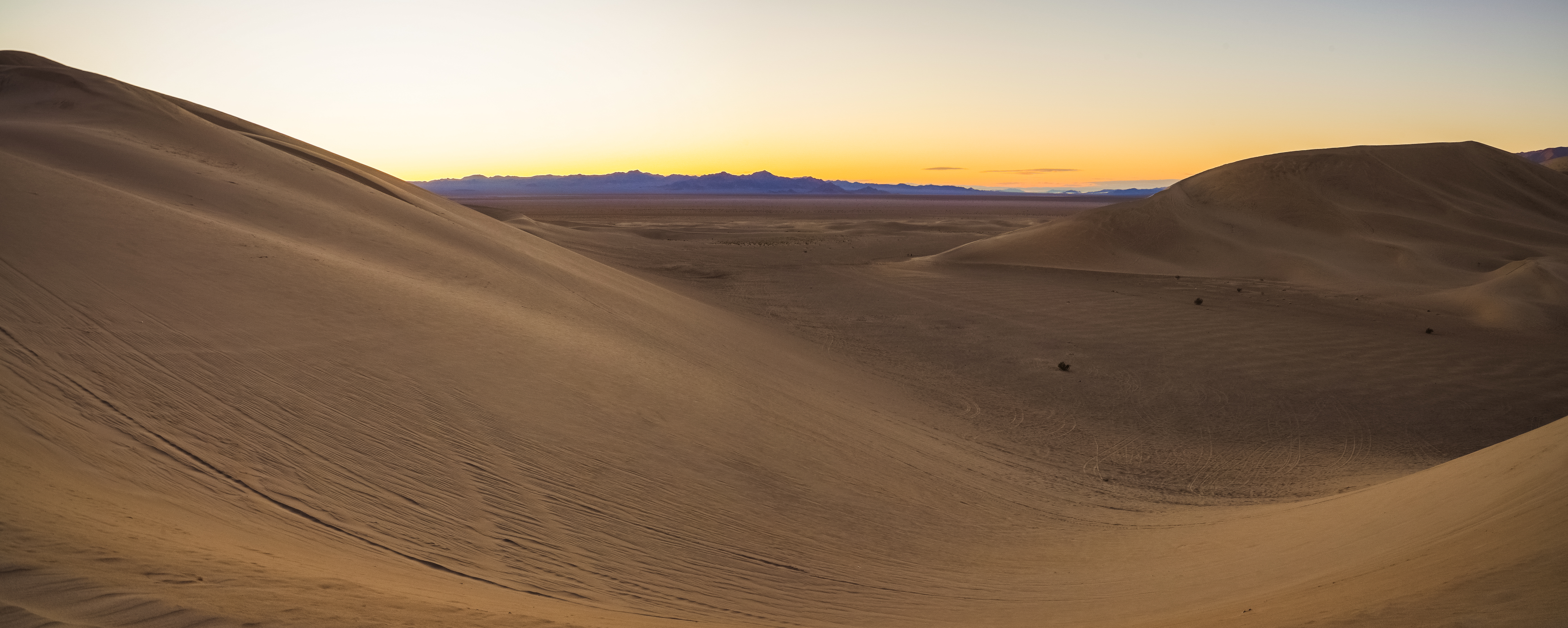 The Dumont Dunes Off -Highway Vehicle (OHV) Area, also referred to as an Open Area, is an exciting and remote area for OHV recreation. Bordered by steep volcanic hills and the slow running Amargosa River, the region is easily recognized from a distance by its distinctive sand dunes. Although small in area, the dune system reaches over 400 feet above the surrounding desert floor and contains virtually every type of common active sand dune. Three neighboring sand dune systems are the Valjean Dunes to the east, Little Dumont Dunes to the west and Ibex Dunes located within Death Valley National Park. A favorite location among OHV enthusiasts, the dunes also offer fabulous scenery and opportunities for solitude. The vegetation here consists of creosote scrub, some annual grasses, and wildflowers in the spring. The area is hot and arid, with summer high temperatures ranging from 100 to 120 degrees F. Winter low temperatures may drop below freezing with highs in the 70's. Typical of the desert, winds are frequent and strong, and humidity is generally low. Food, fuel and most necessities are available in Baker, Shoshone, and Pahrump, NV. Cellular phone service is intermittent at Dumont Dunes and is not reliable in all locations. Photo by Jesse Pluim, BLM.